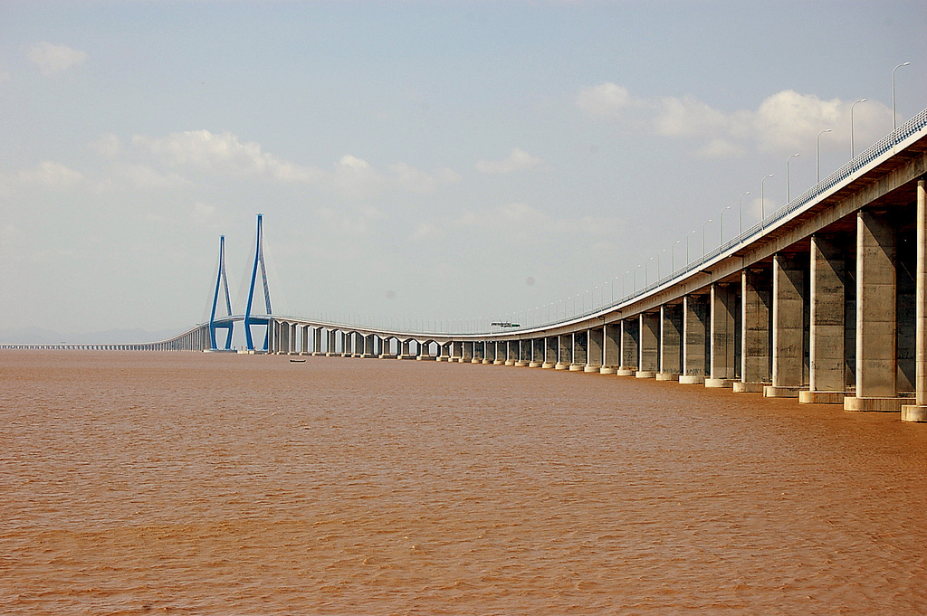 The Jintang Bridge in Zhoushan, Zhejiang Province, China